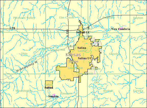 Detailed map of Salina, Kansas